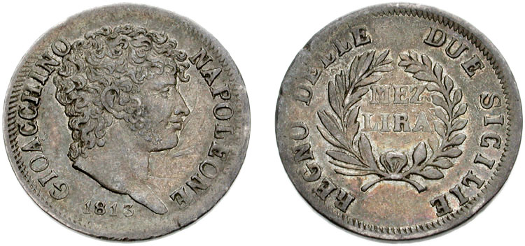 Italy, Neapolitan Republic. Gioacchino Napoleone (Joachim Murat). 1808-1815. AR Mezza Lira (1/2 lira) (18mm, 2.51 g, 9h). Dated 1813. Bare head right; 1813 below MEZ/LIRA in two lines across fields; all within wreath. Pannuti 18; Pagani 63